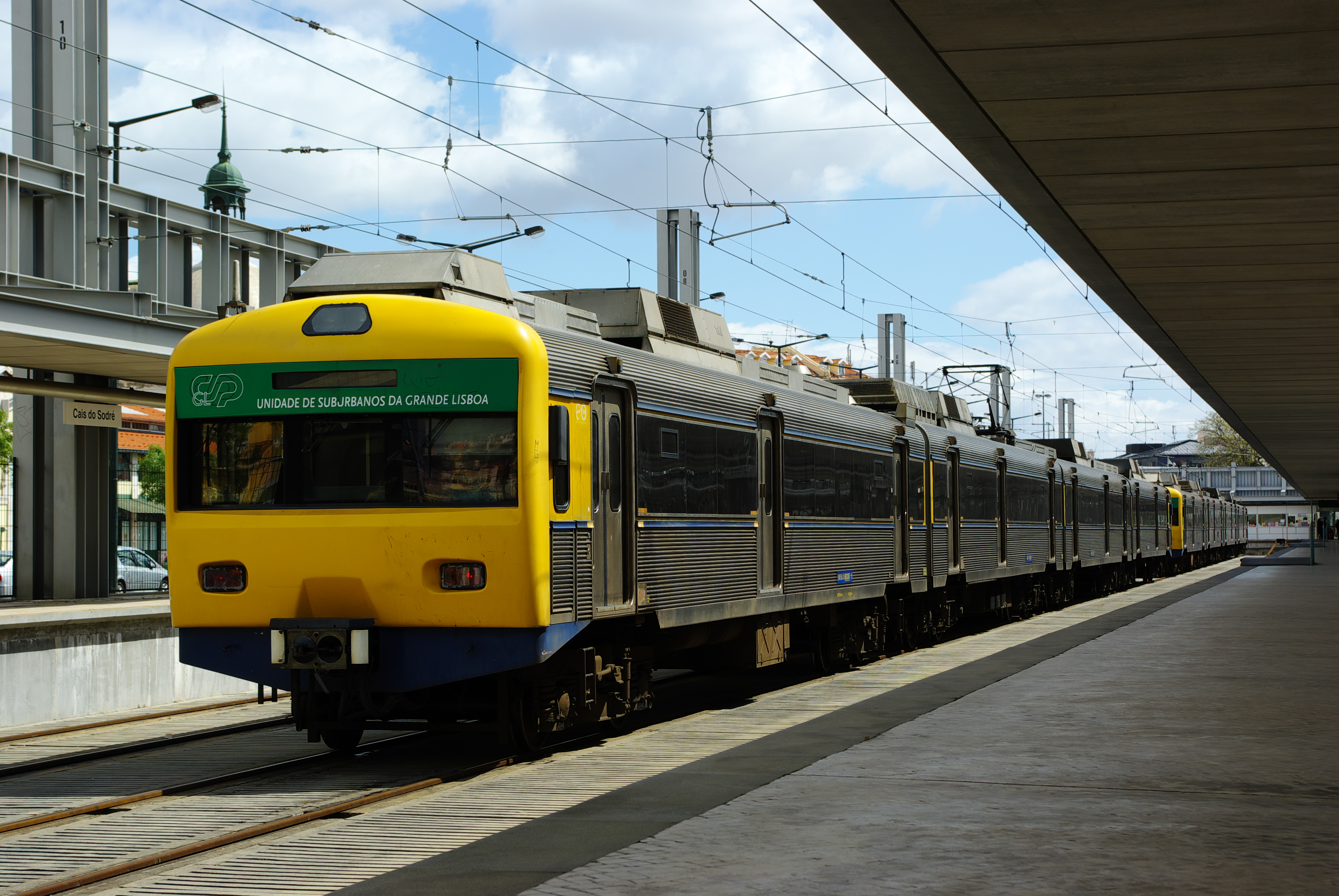 Train type 3150/3250 at Cais do Sodré train station, Lisbon, Portugal